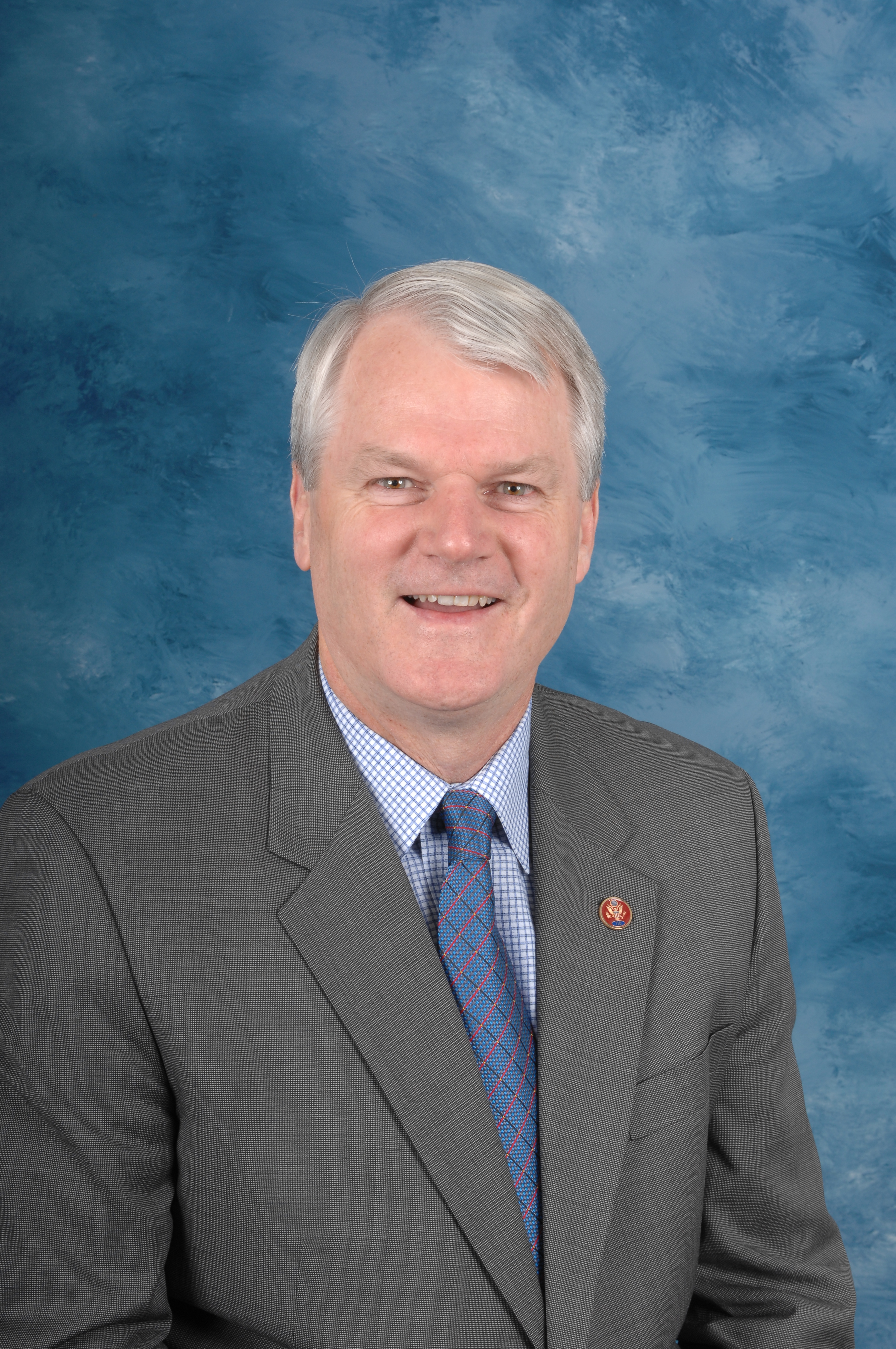 Brian Baird, member of the United States House of Representatives.